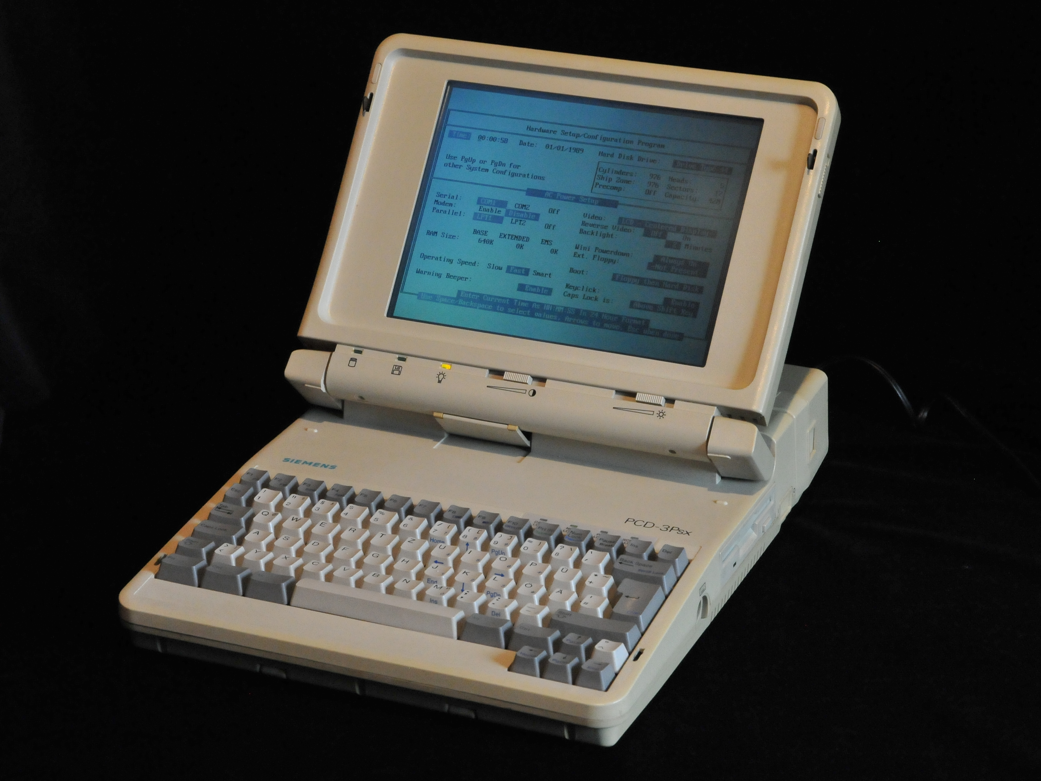 1989 Laptop PCD-3Psx by Siemens